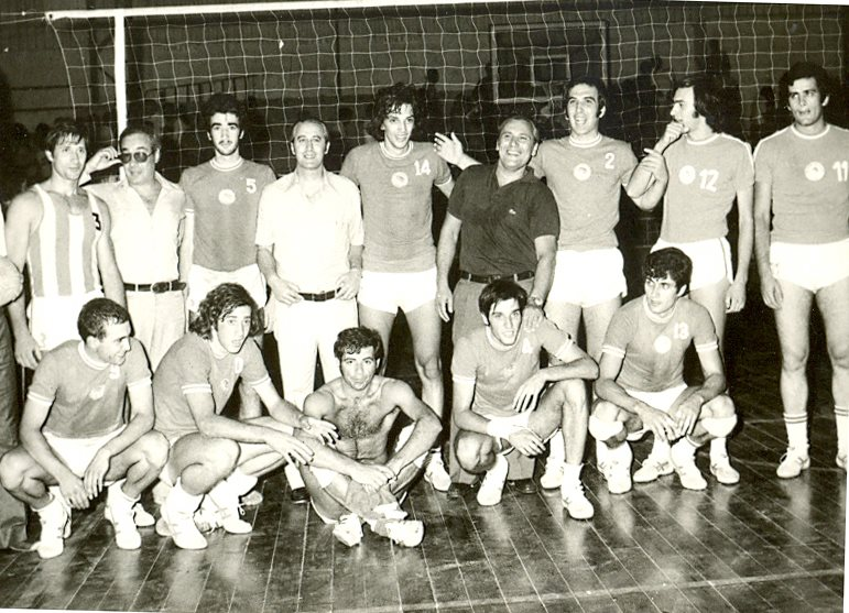 Stelios Prosalikas and Olympiakos Volleyball Team